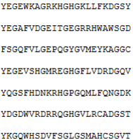 Morn repeats within the Morn1 gene on Chromosome 1, 1p36.33